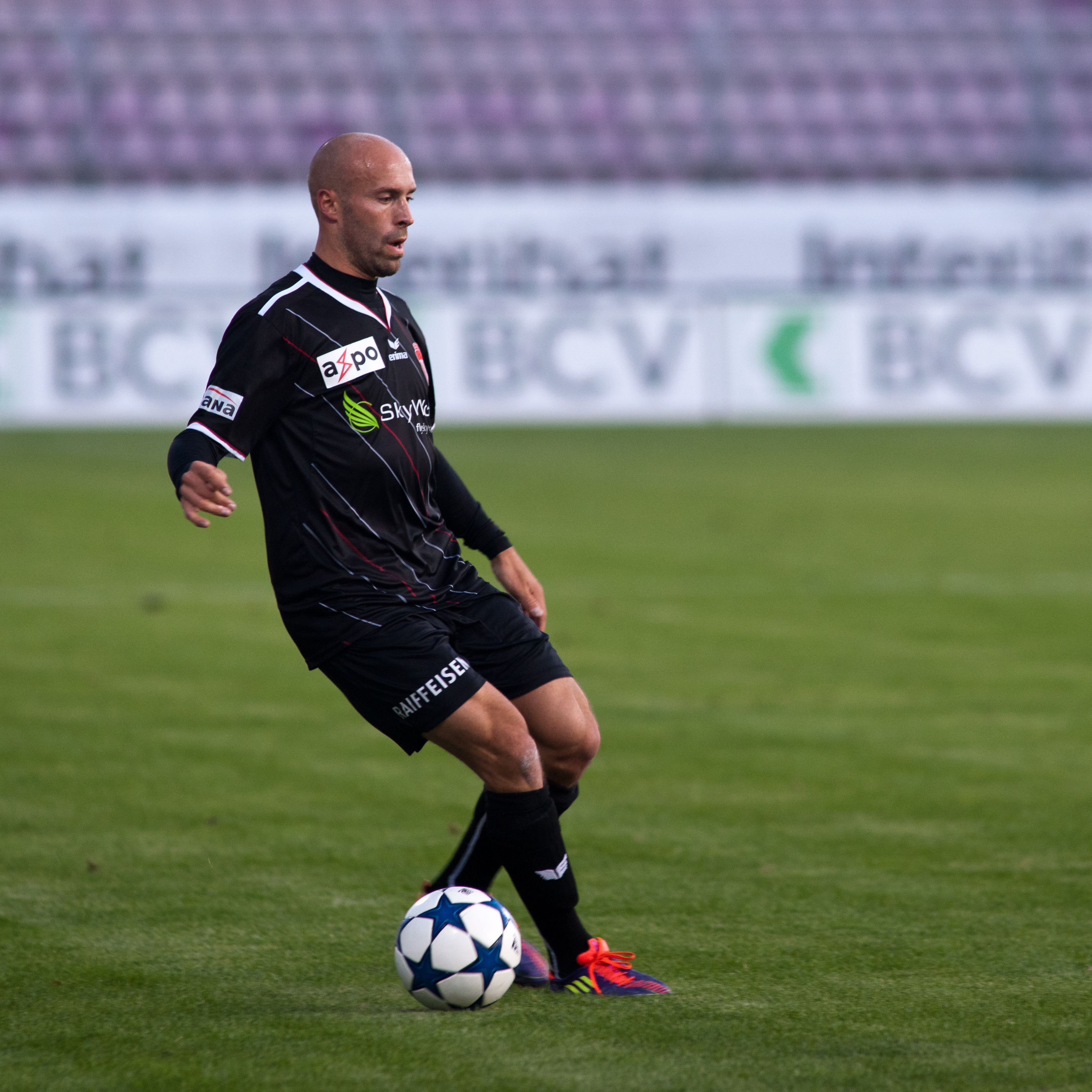 The making of this document was supported by Wikimedia CH. (Submit your project!) For all the files concerned, please see the category Supported by Wikimedia CH. Lausanne Sport vs. FC Thun - 22.10.2011